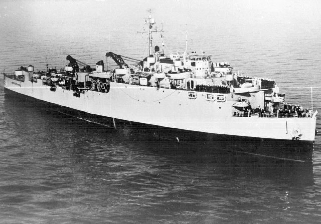 USS Ashland (APM-1)